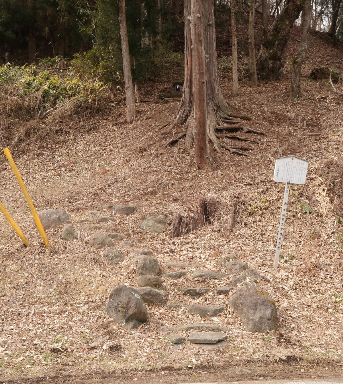 Tokoromatsu Shrine (Suwa Taisha Kamisha Maemiya, Chino, Nagano)